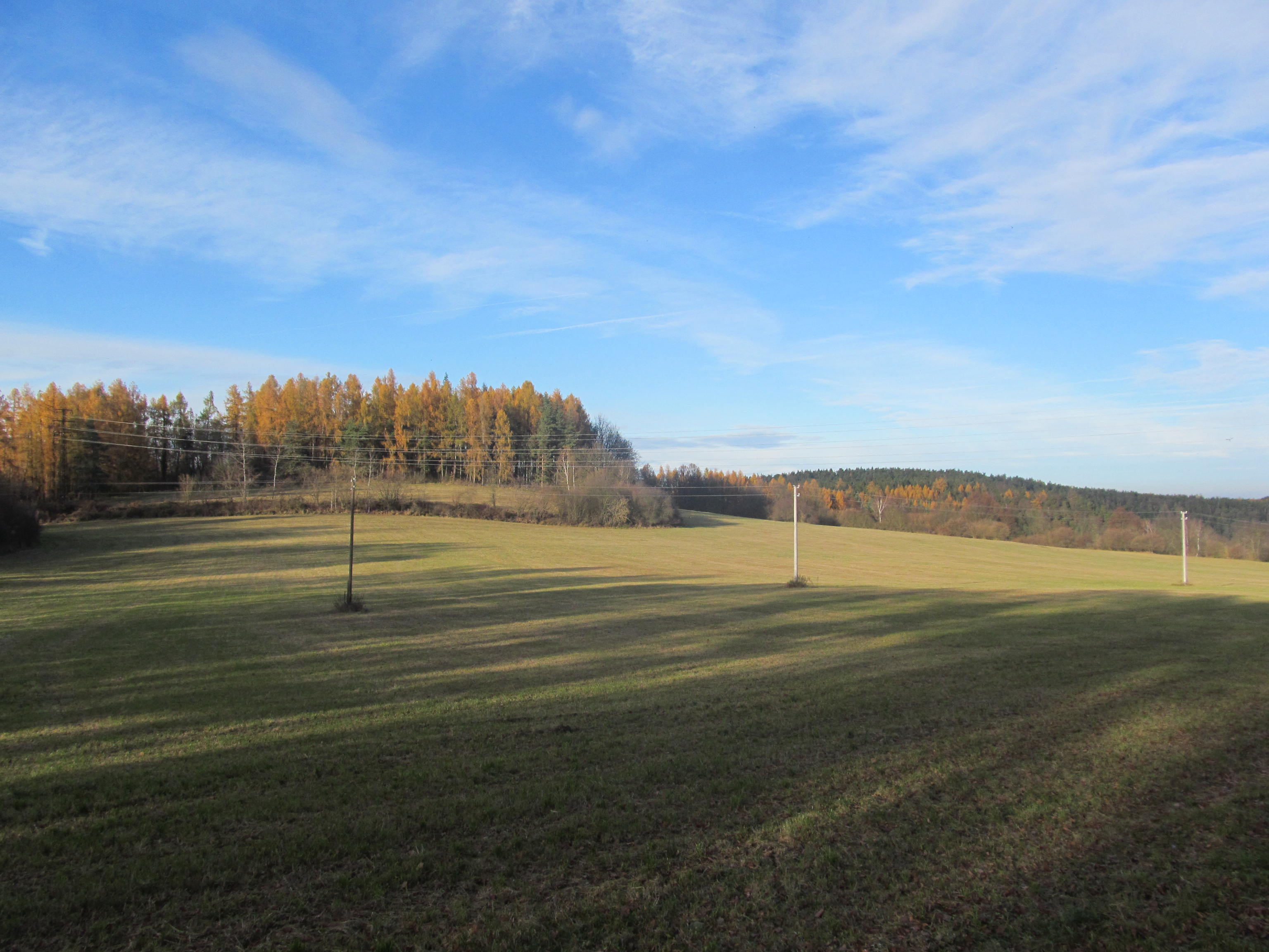 Site of the Třísov oppidum from SW